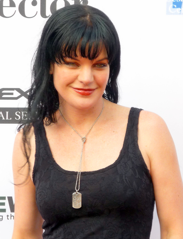 American actress Pauley Perrette in July, 2011.